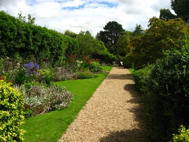 Floral path at Upton castle For more details on Upton castle